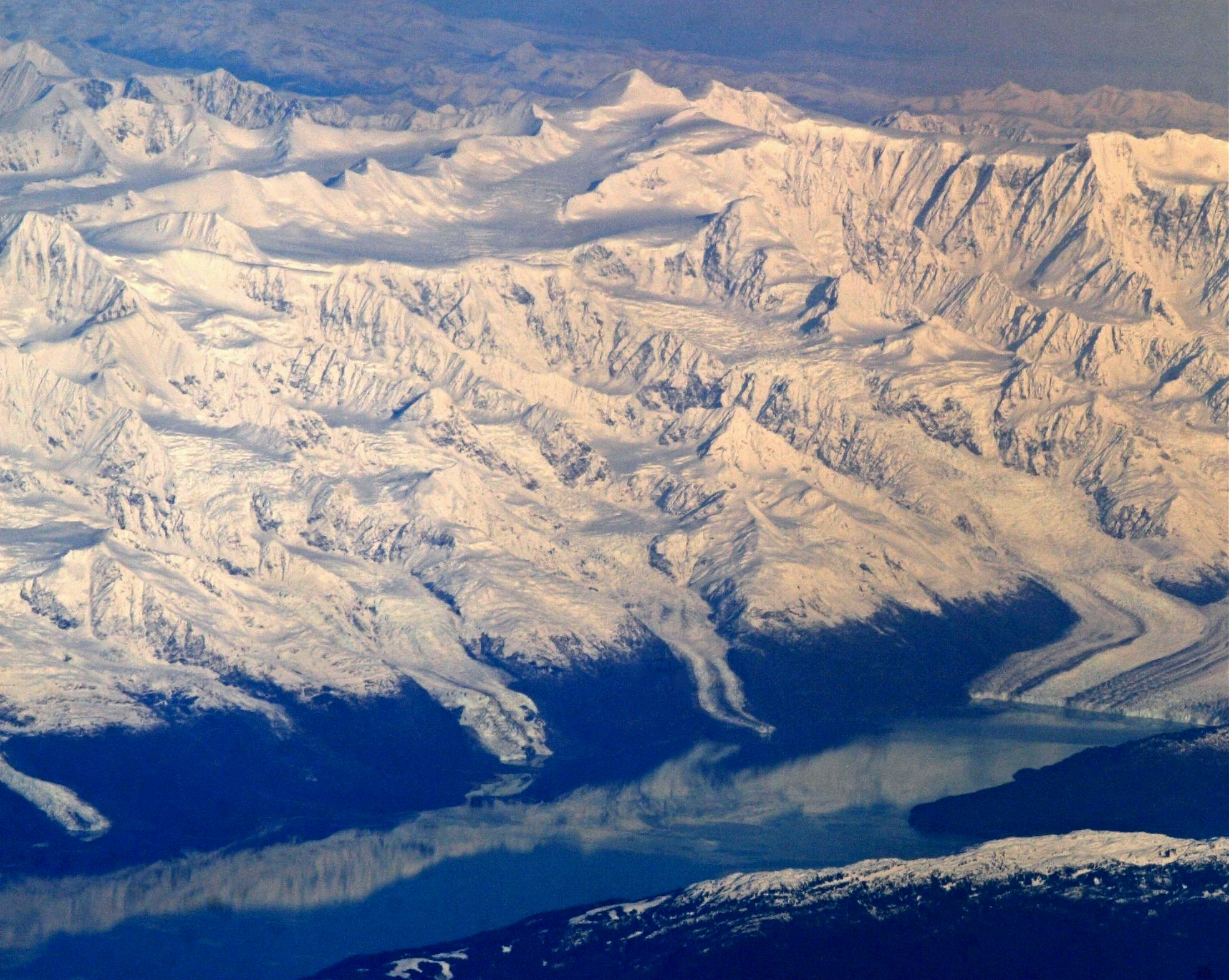 Mt. Marcus Baker aerial view